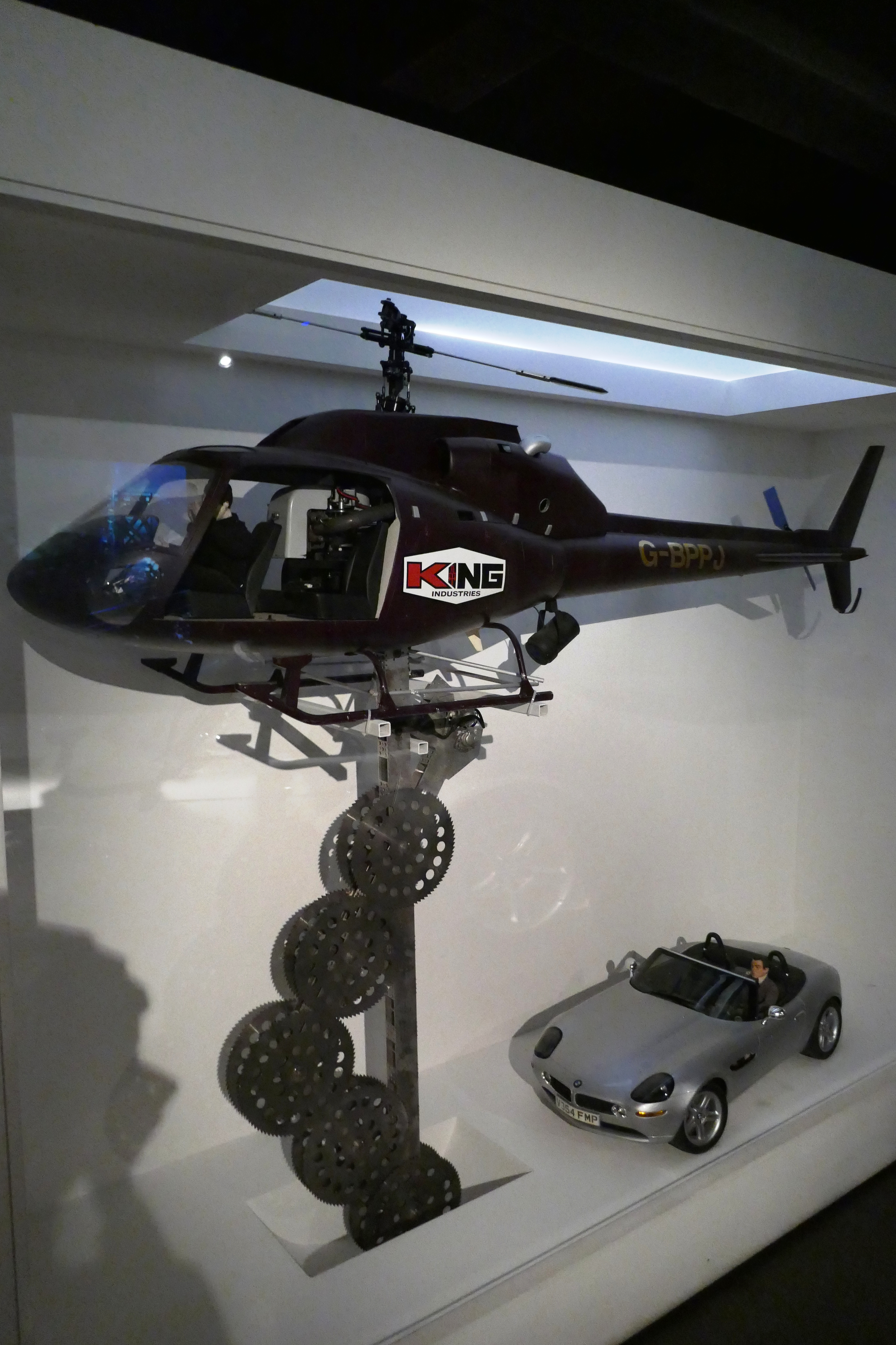 Eurocopter AS-355-F1 & BMW Z8 Miniature from the movie "The World Is Not Enough" National Film Museum, London - Bond in Motion Exhibition (2017)